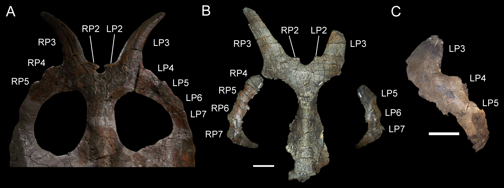 Parietals of Achelousaurus horneri. (A) MOR 485 (holotype), parietal in dorsal view; (B) MOR 571, parietal in dorsal view; (C) MOR 591, left lateral parietal bar in dorsal view. Abbreviations: LP2, left P2 process; LP3, left P3 process; LP4, left P4 process; LP5, left P5 process; LP6, left P6 process; LP7, left P7 process; RP2, right P2 process; RP3, right P3 process; RP4, right P4 process; RP5, right P5 process; RP6, right P6 process; RP7, right P7 process. Scale bars in B and C equal 10 cm. MOR 485 was photographed behind glass, so a scale bar could not be applied; for scale, see Sampson (fig. 3 in [14]).